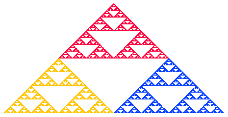 Sierpinski fractal, made using an L-system